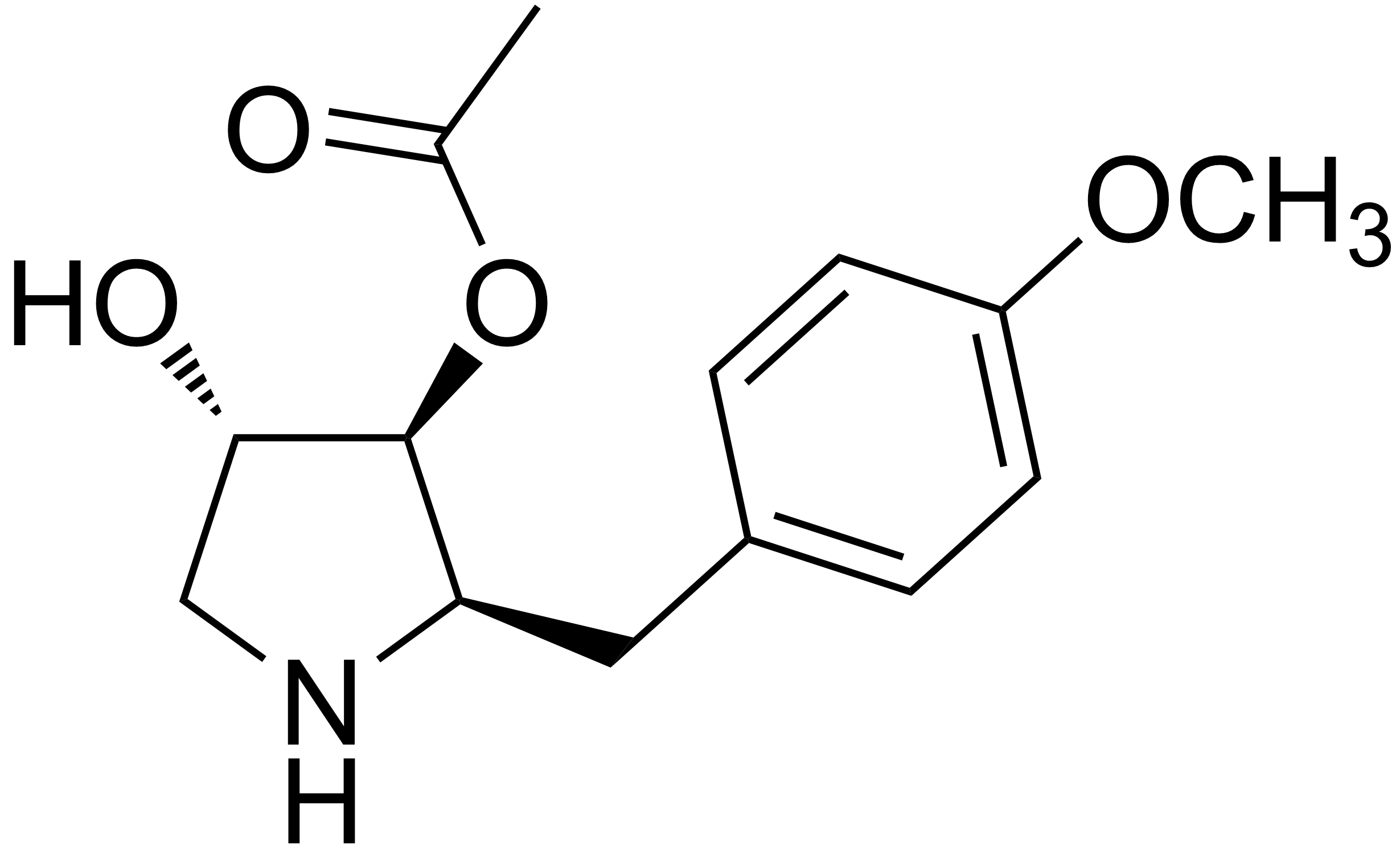 chemical structure of anisomycin